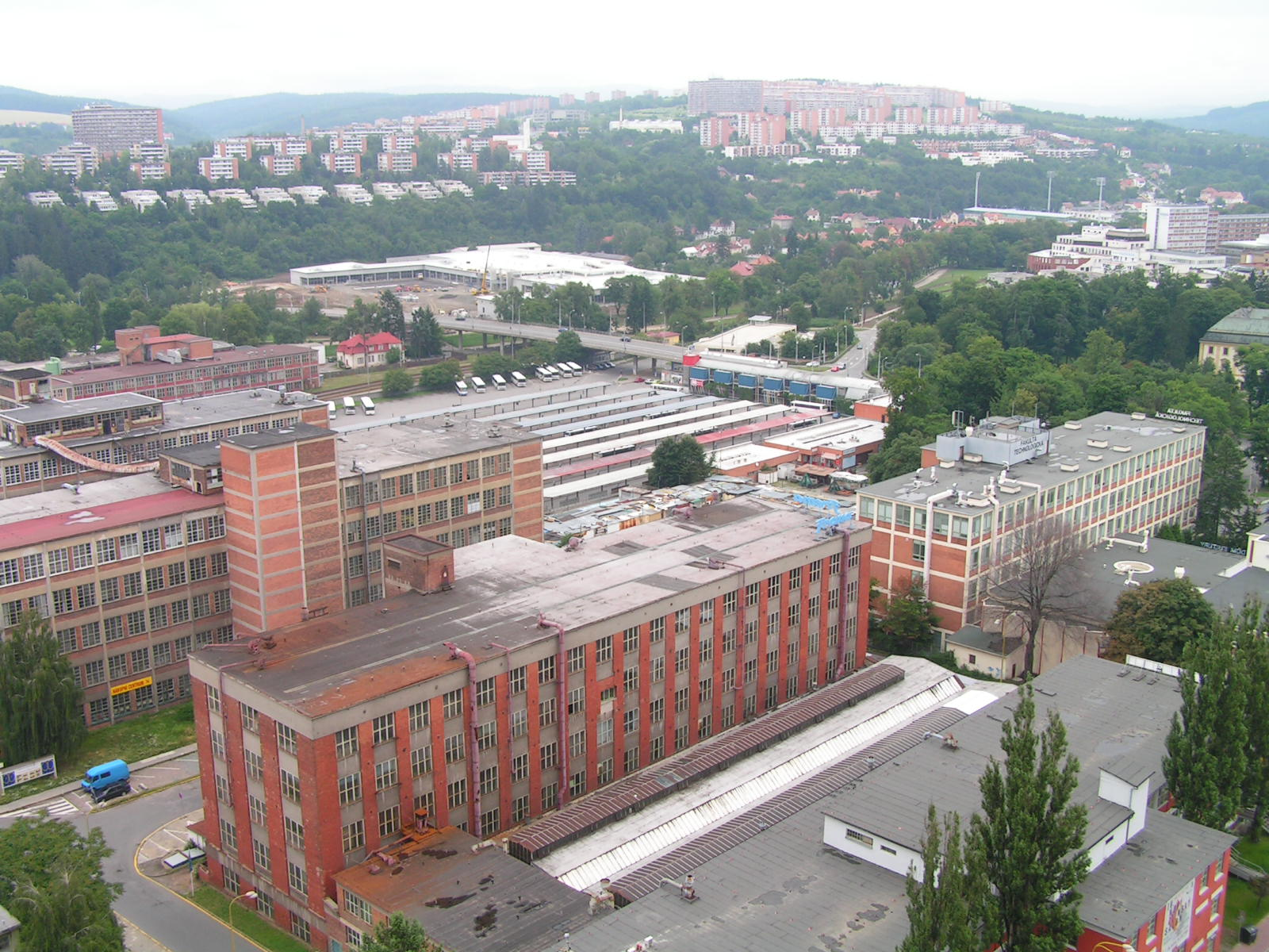 Zlín, urban settlement Jižní Svahy.